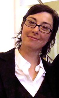 Sue Perkins